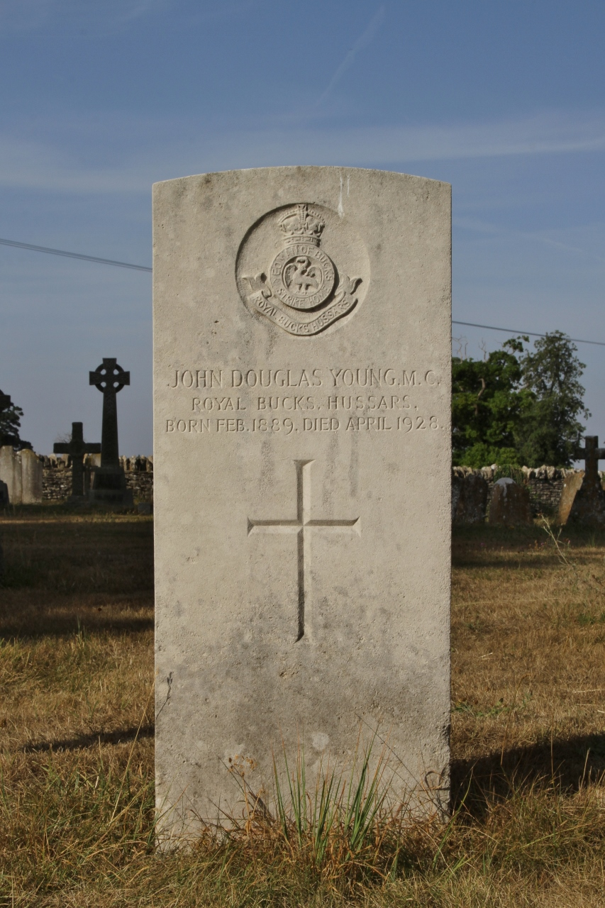 Headstone in All Saints' parish churchyard, Middleton Stoney, Oxfordshire, for John Douglas Young, MC, Royal Bucks Hussars, who died in April 1928. The inscription is unusual for an Imperial War Graves Commission headstone. It does not give Young's rank. It gives the month of his death but not the day. And it gives the year and month of his birth.